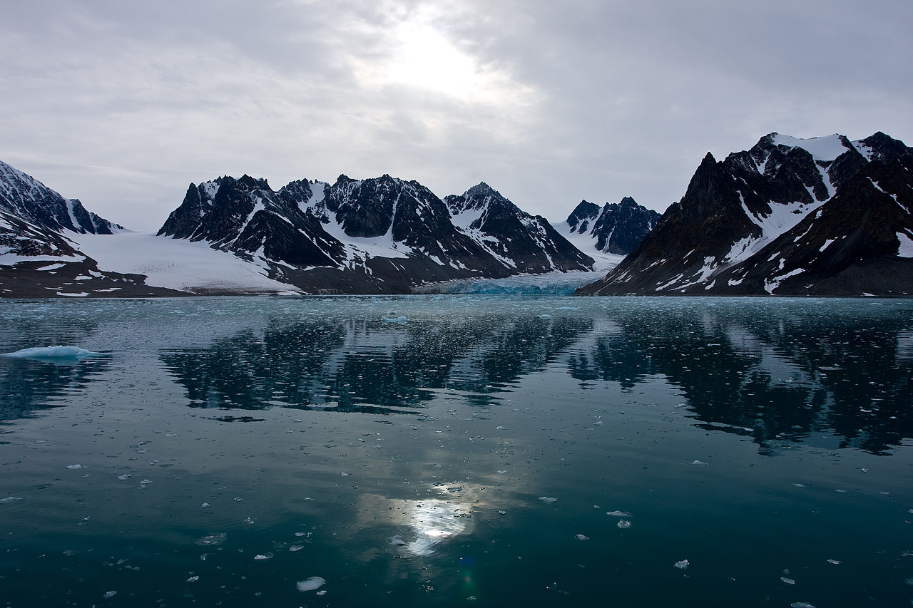 Magdalenefjorden is one of the best known fjords on Spitsbergen – it is a beautiful fjord with jagged mountains. The fjord look faboulous with peaked mountains and some mysterious fog.